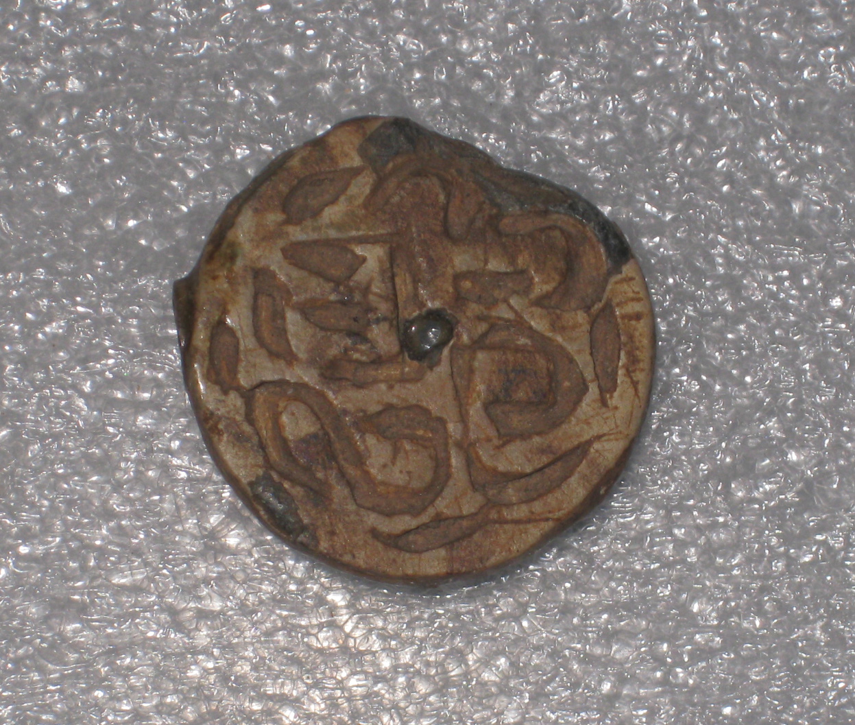 Seal, button disk